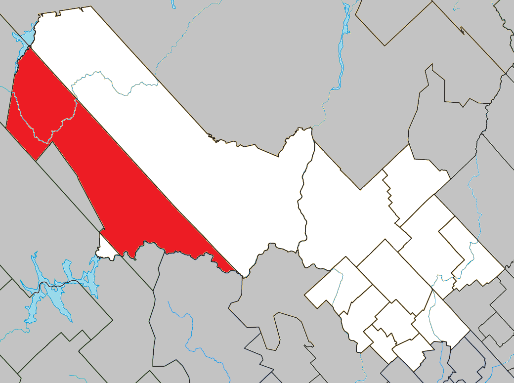 Location of Rivière-de-la-Savane, Quebec within Mékinac Régional County Municipality.